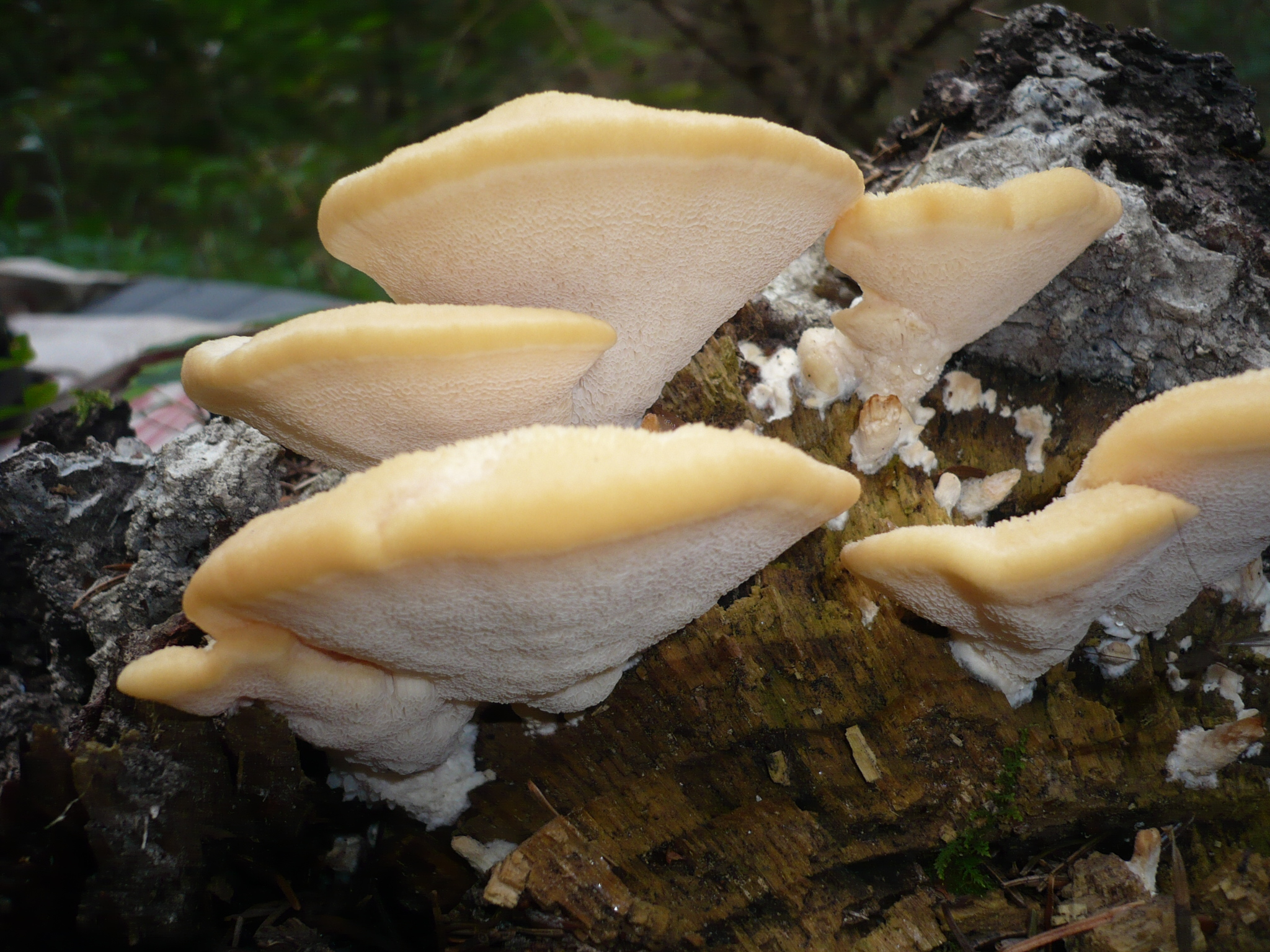 Fruit bodies on the fungus Climacocystis borealis. Specimen photographed in Marchgraben, Wöllersdorf, Bezirk Wiener Neustadt, Austria.